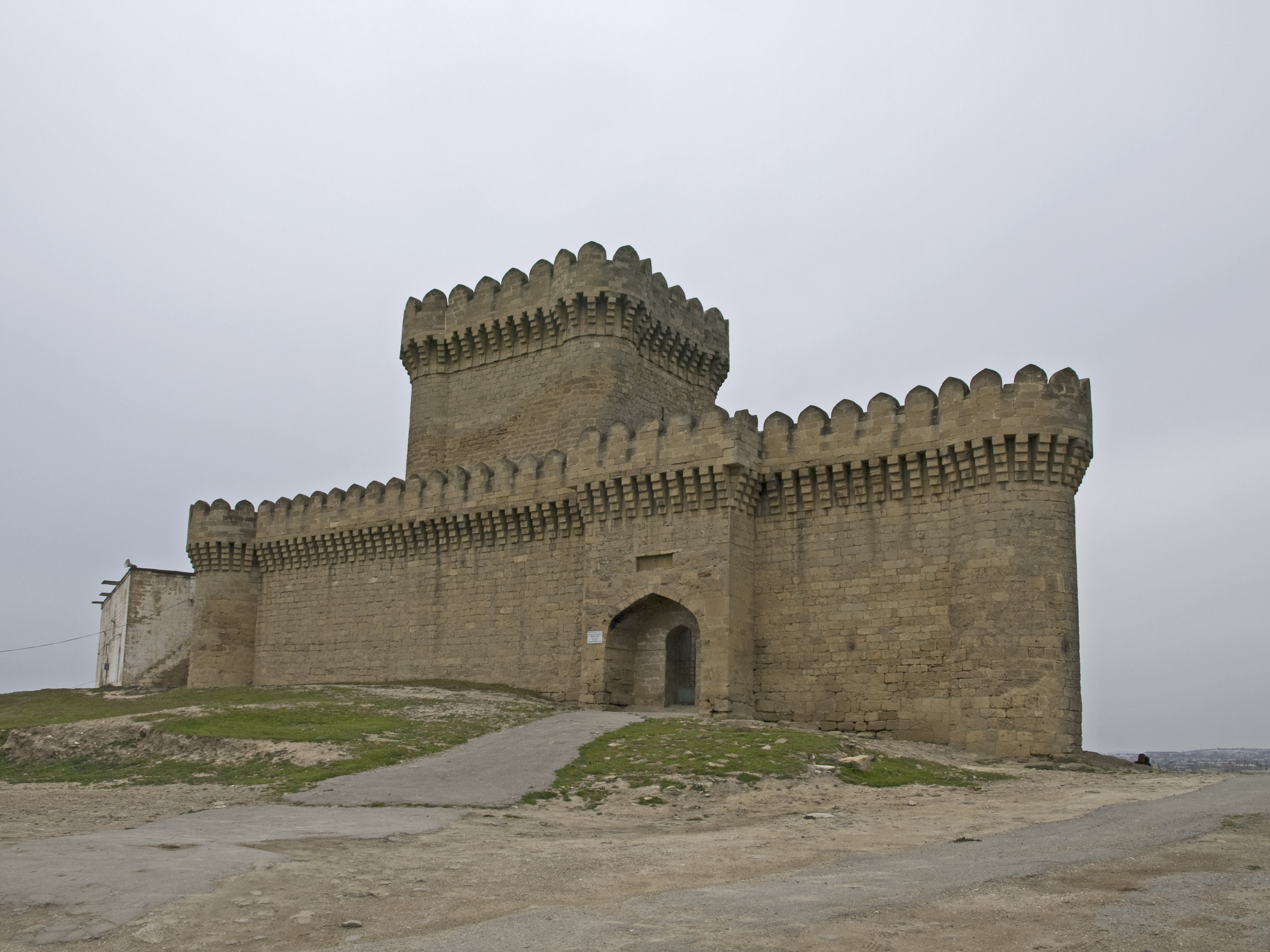 Ramana castle, front